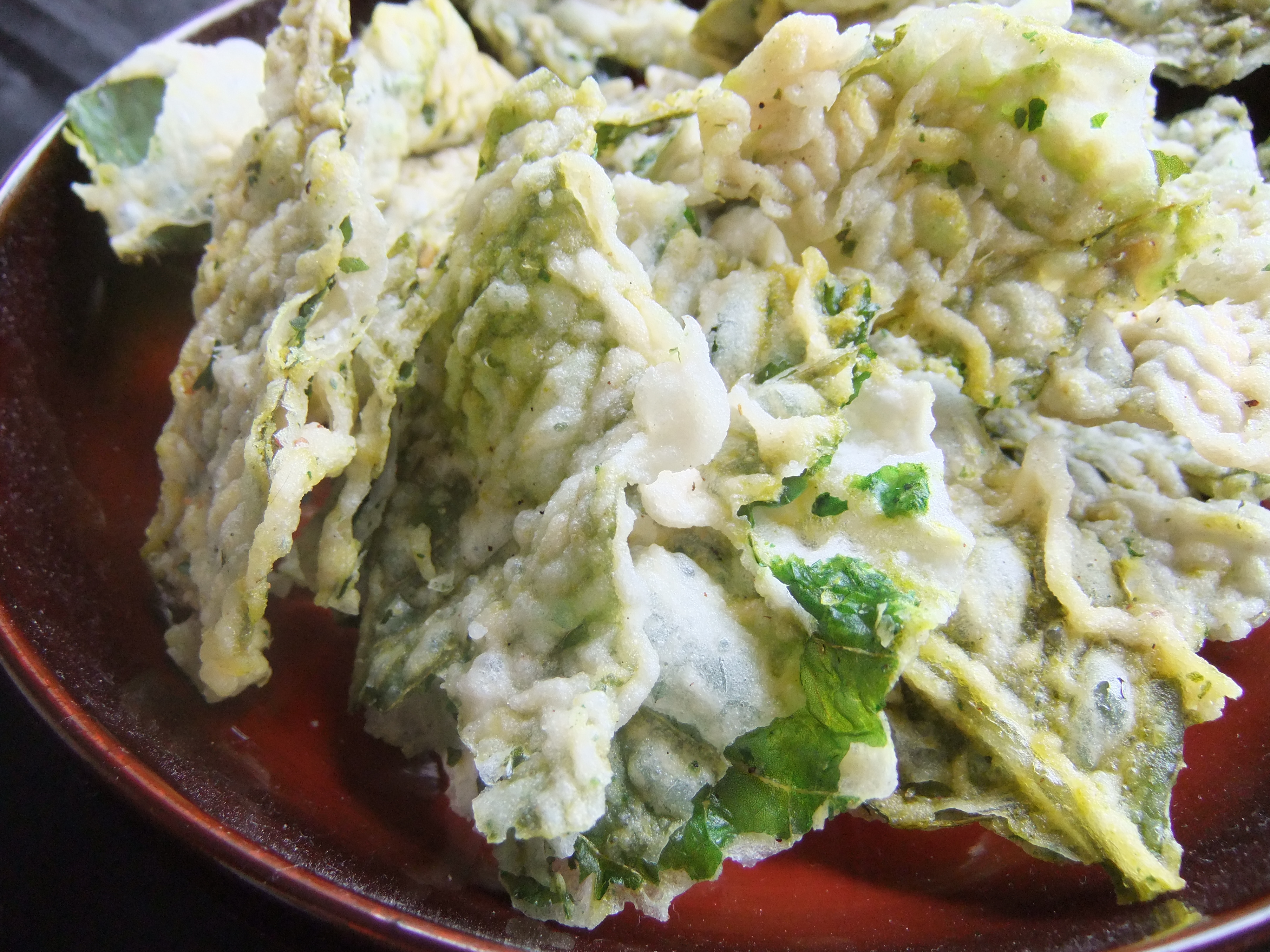 Vegetable (possibly Amaranthus sp.) chips, product of Bandung, Indonesia.